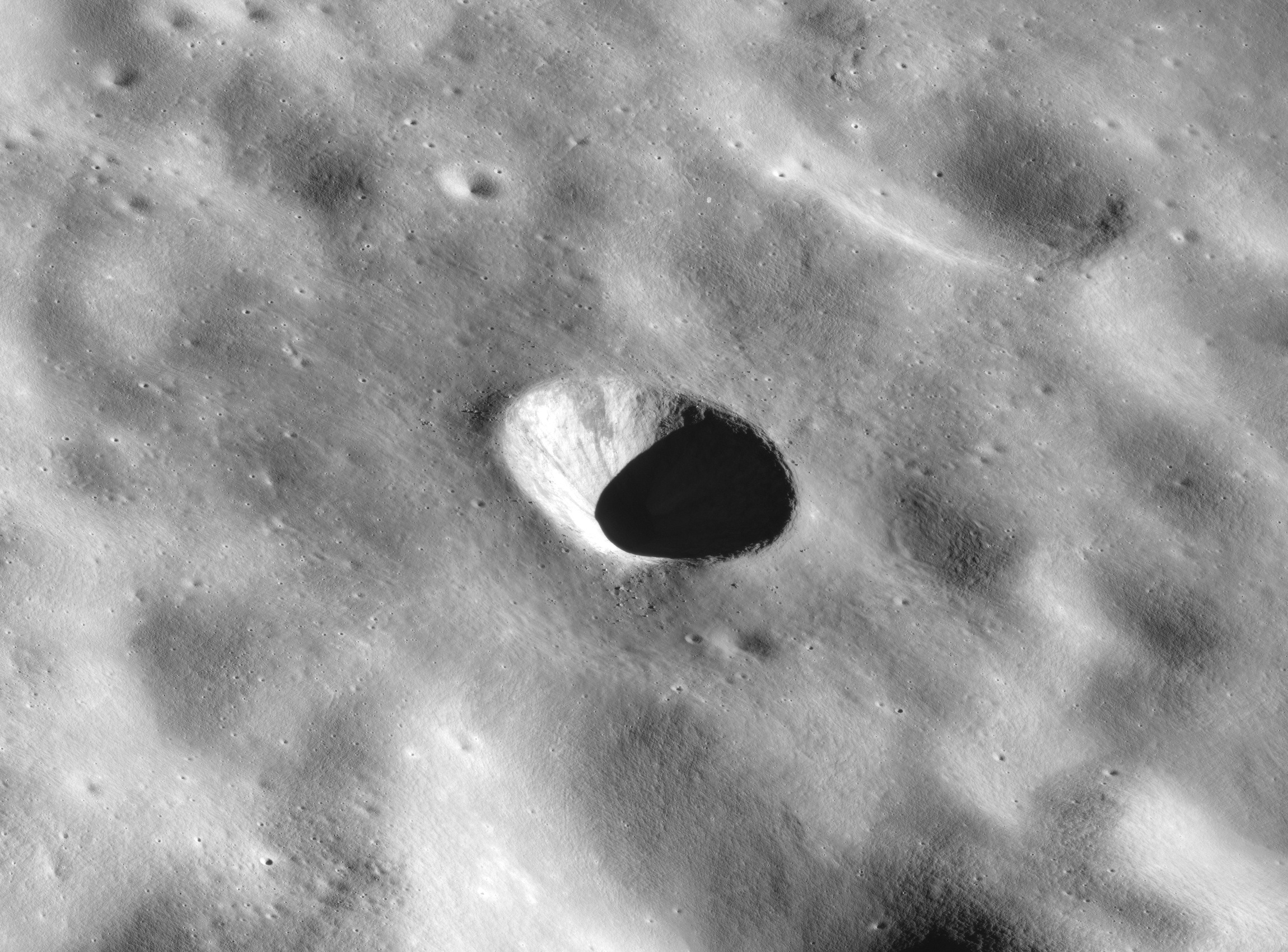 High resolution view of the unnamed dark-halo crater within Neujmin crater, on the far side of the moon, facing south. The halo of dark ejecta itself is visible but not prominent in this photo due to a low sun angle.